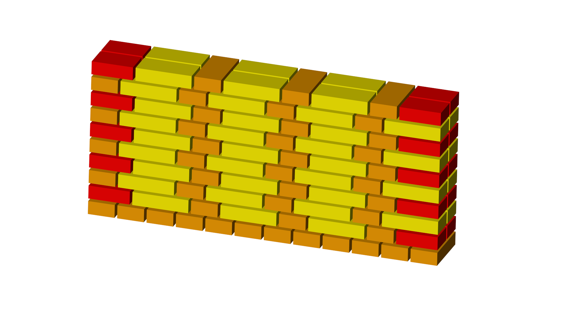 Garden wall bond